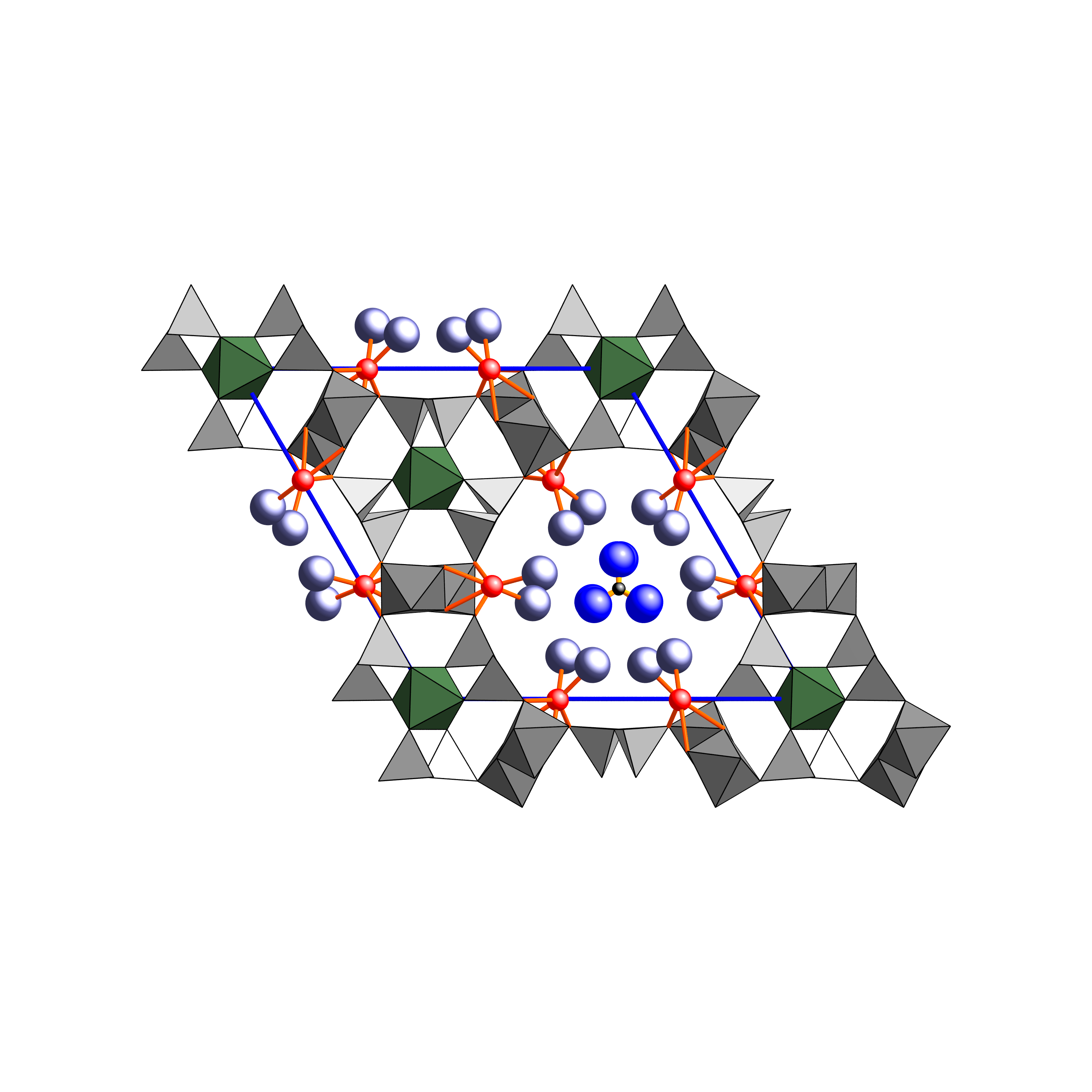 Aerinite structure: View down the c-axis blue: oxygen violet: H2O red: calcium black: carbon light gray: SiO tetrahedra chains dark gray: edge sharing AlO/OH octahedra chains dark green: face sharing FeO octahedra chains blue lines: unit cell